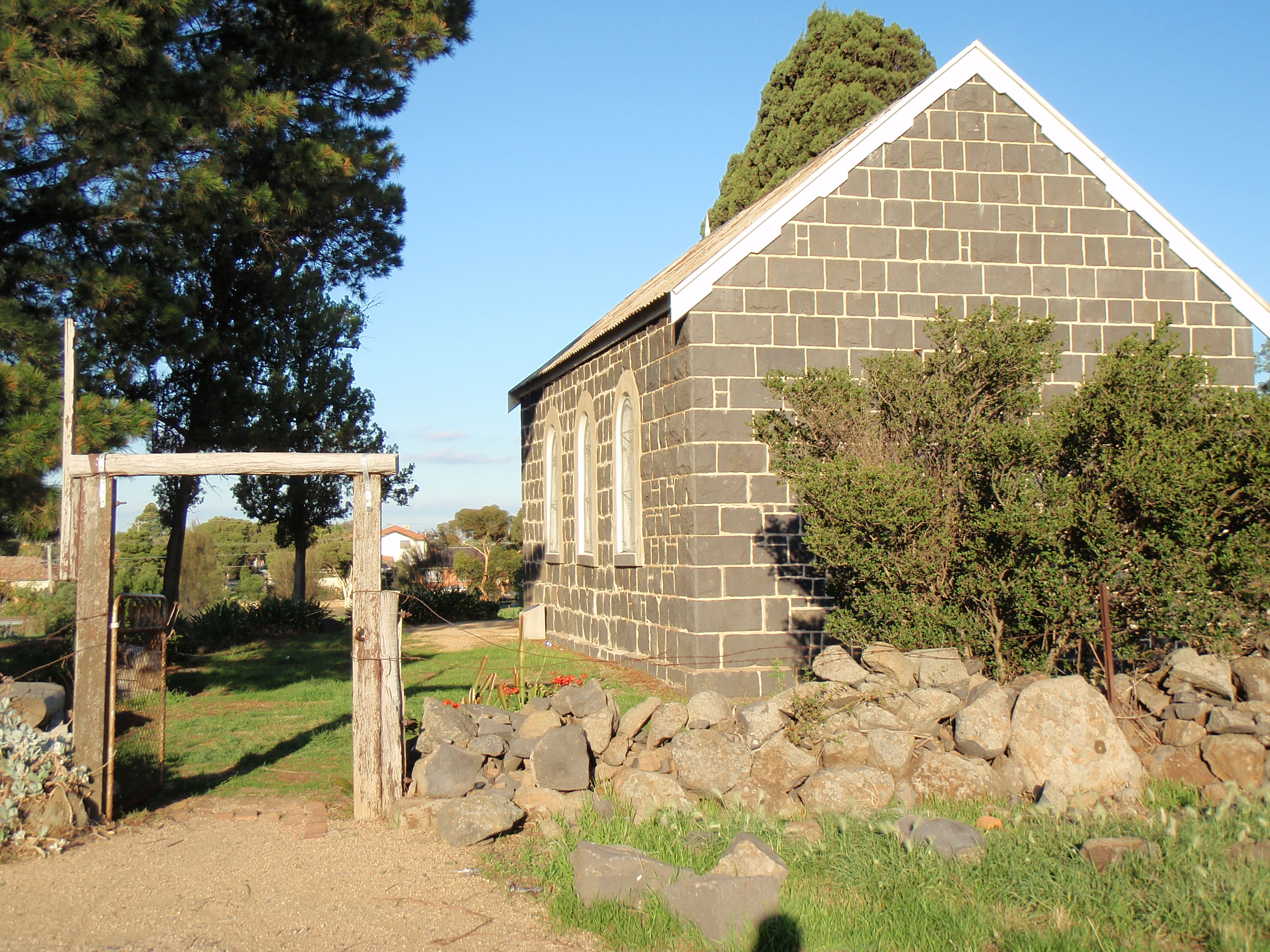 The historic Lutheran Church in Westgarthtown (Thomastown), Melbourne, Victoria.